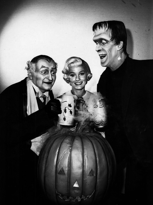 Publicity photo from the television program The Munsters for Halloween. Pictured from left: Al Lewis (Grandpa), Beverley Owen (Marilyn), and Fred Gwynne (Herman Munster).